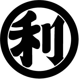 Maruni-Toshi(利) no mon. Japanese Family Crest. This is one of Katahara Matsudaira Clan (形原松平家)'s Family Crest.